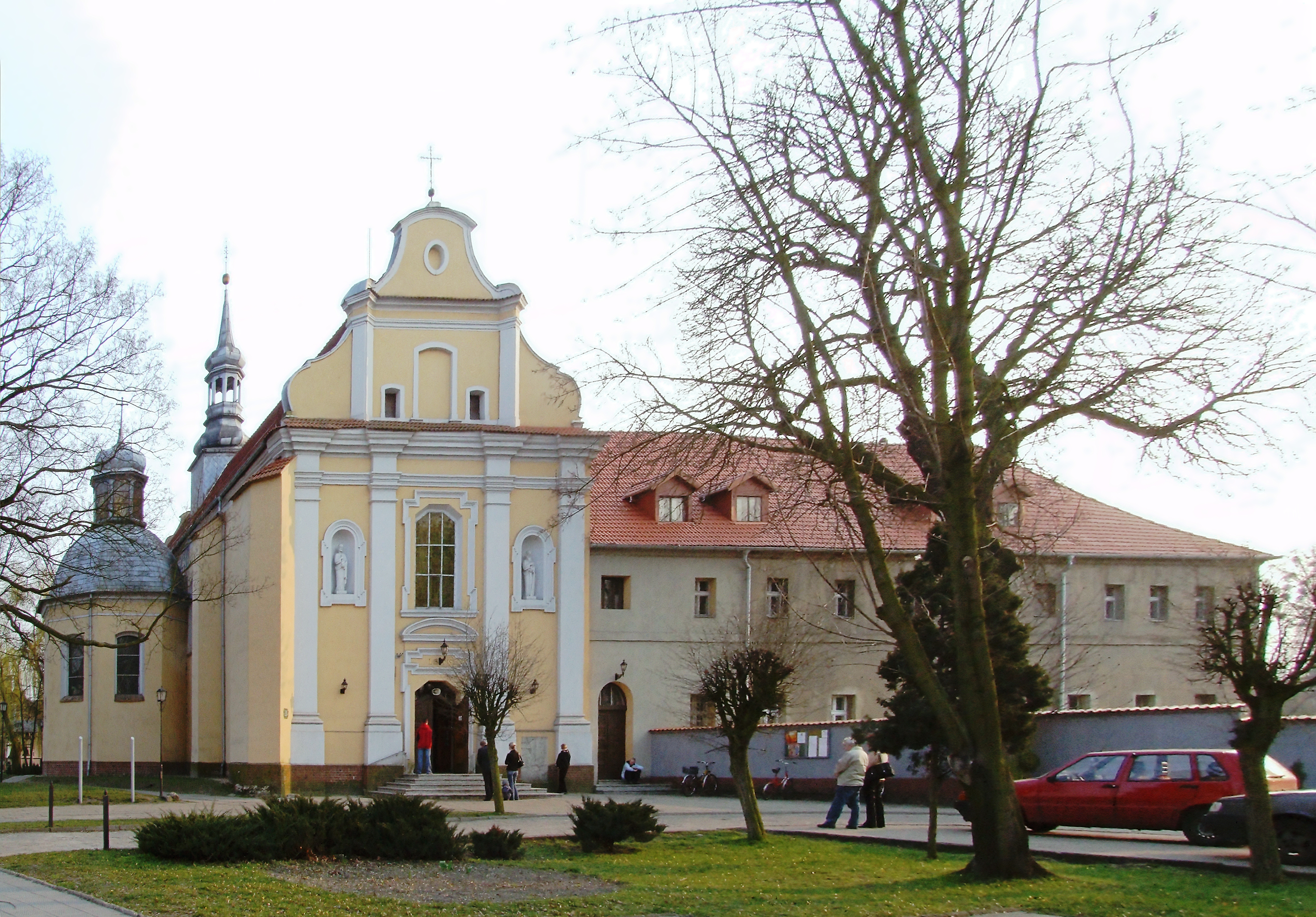 Szamotuły, former reformati church & monastery